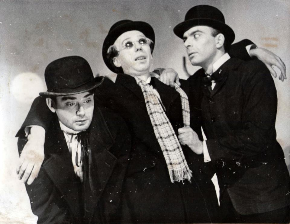 Jorge Petraglia, Roberto Villanueva, Leal Rey in Samuel Beckett's Waiting for Godot - Buenos Aires, 1956